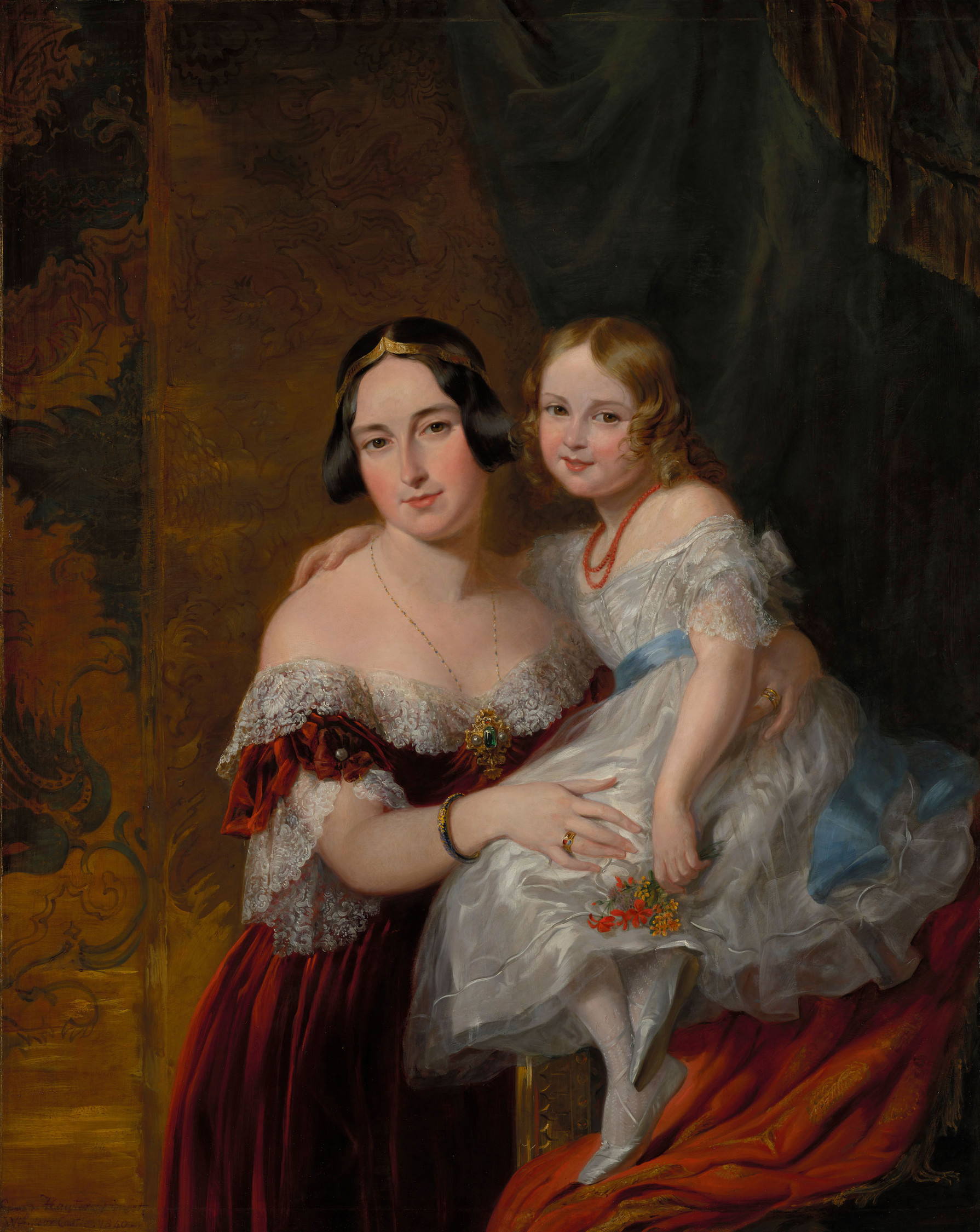 Feodora, Princess of Hohenlohe-Langenburg with her daughter Princess Adelaide